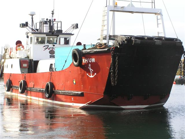 MV Rhum (1973) pictured at Burtonport, previously a CalMac ferry, which provided a seasonal service to Lochranza on the Isle of Arran.